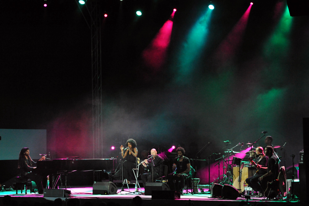 Idan Raichel Project performing in Warszawa in September 2011.